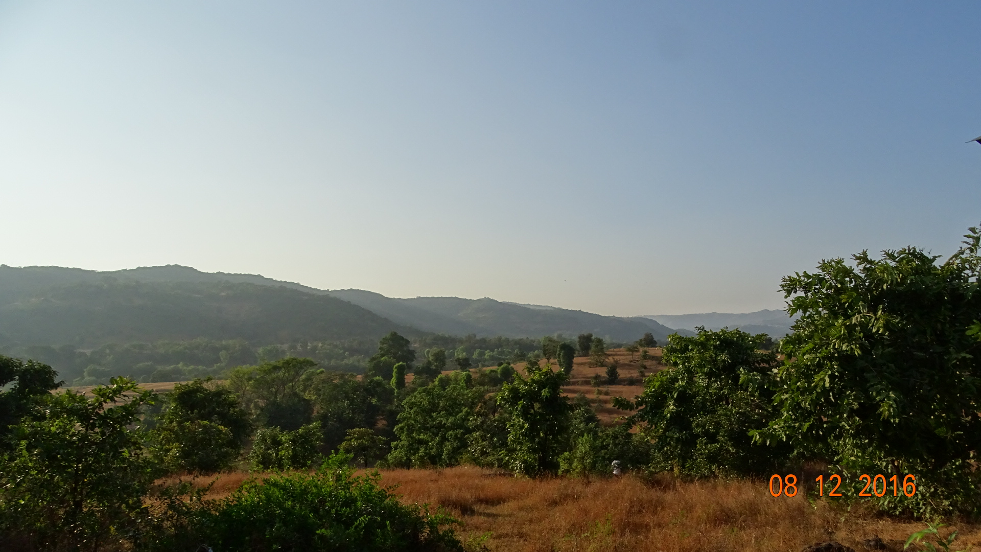 गावाजवळील निसर्गरम्यं परिसर